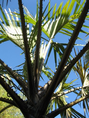 Hyphaene coriacea